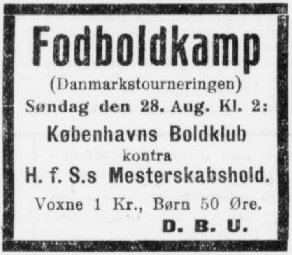 Advertisement for the one of four matches played on the first match day of 1927–28 Danmarksmesterskabsturneringen - The text reads: Fodboldkamp (Danmarkstourneringen) Søndag den 28. Aug. Kl. 2: Københavns Boldklub kontra H. f. S.s Mesterskabshold. Voxne 1 Kr., Børn 50 Øre. D. B. U.